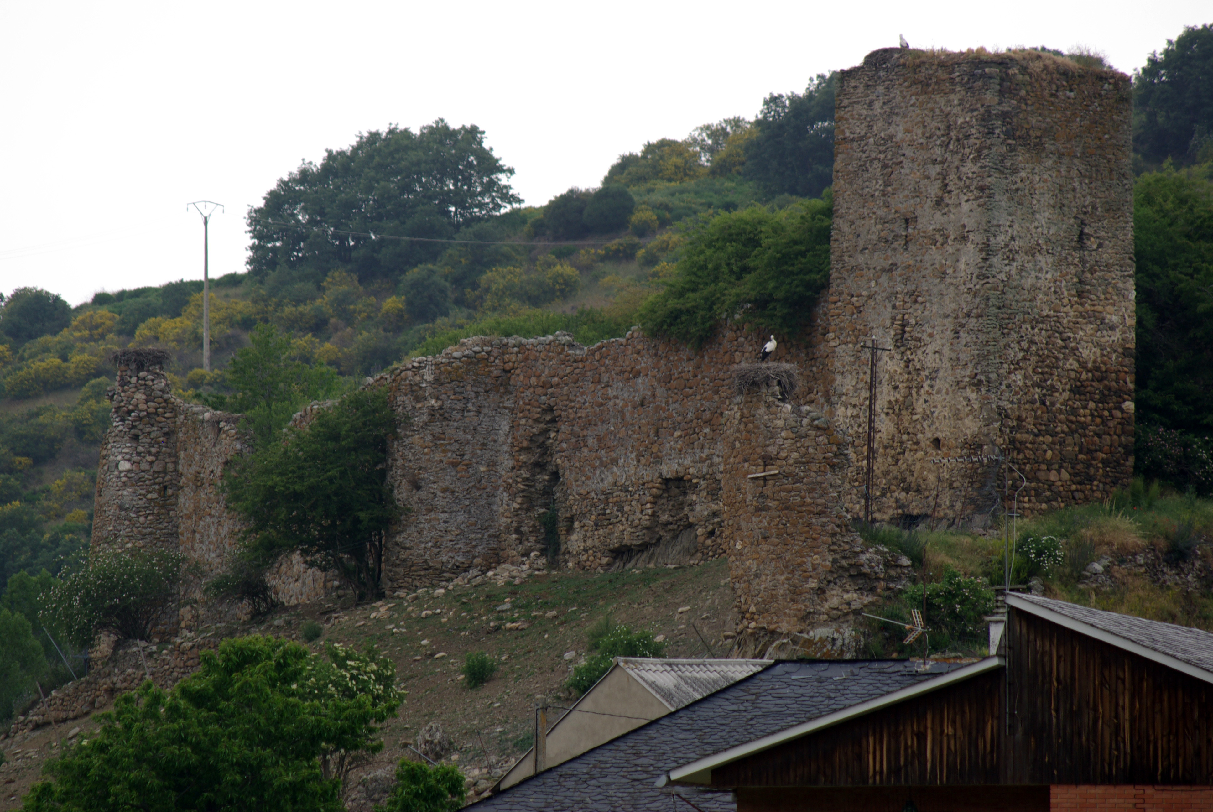 Castle of Benal or Beñal, XIV th Century. El Castillo (Riello, León, Spain)